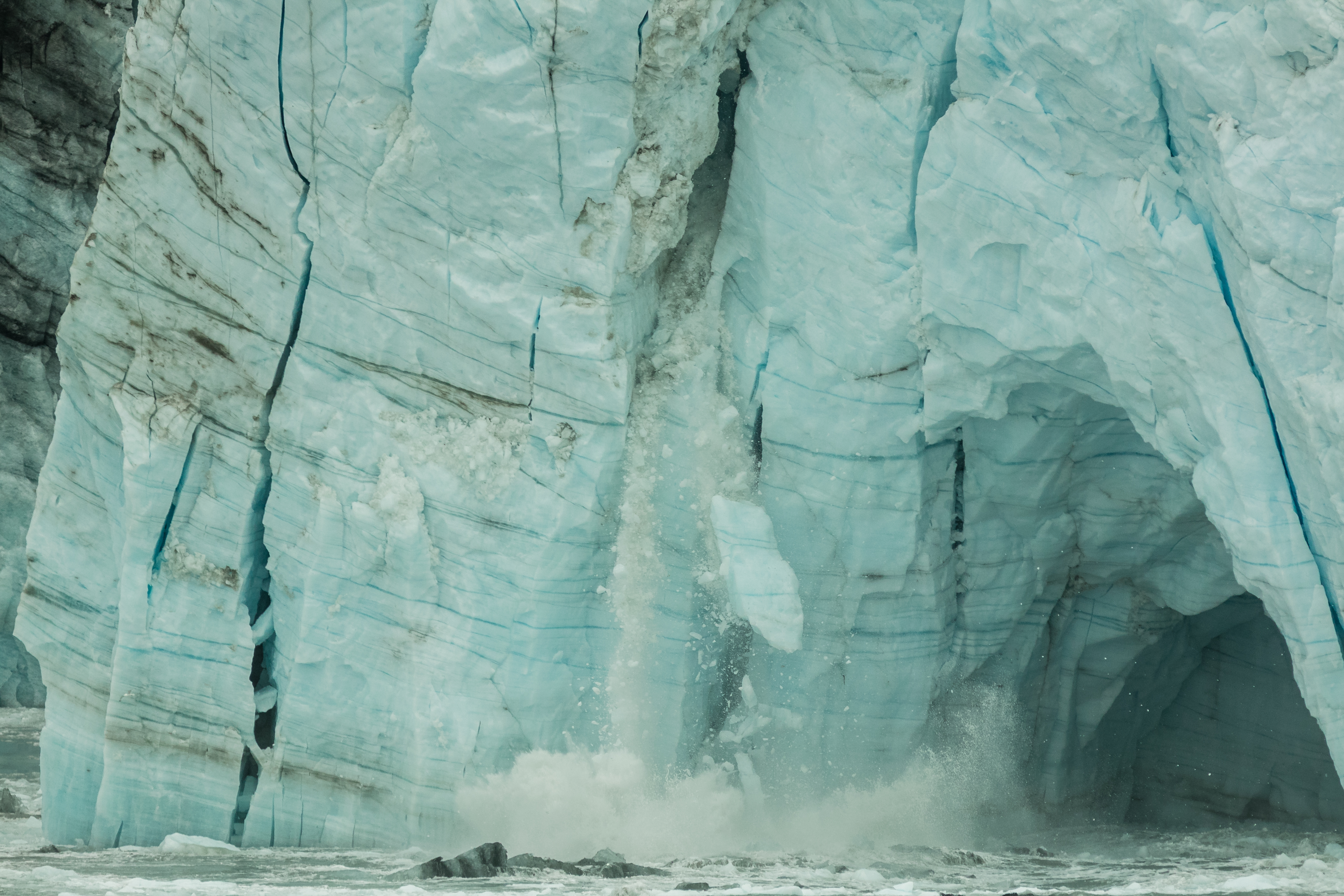 Ice calving off the Margerie Glacier, Glacier Bay National Park, Alaska, United States